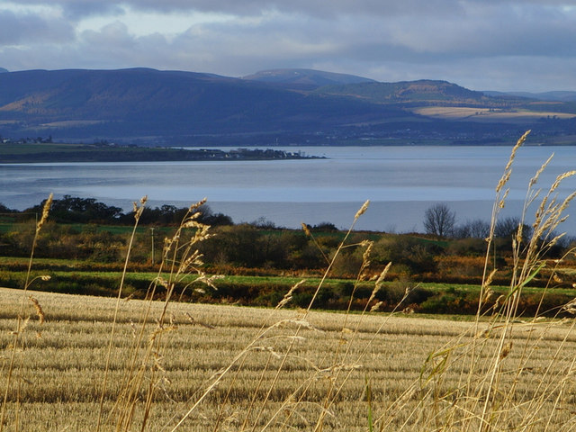 Stubble field near Allerton, Black Isle, 4 km from Cromarty, Highland, Great Britain